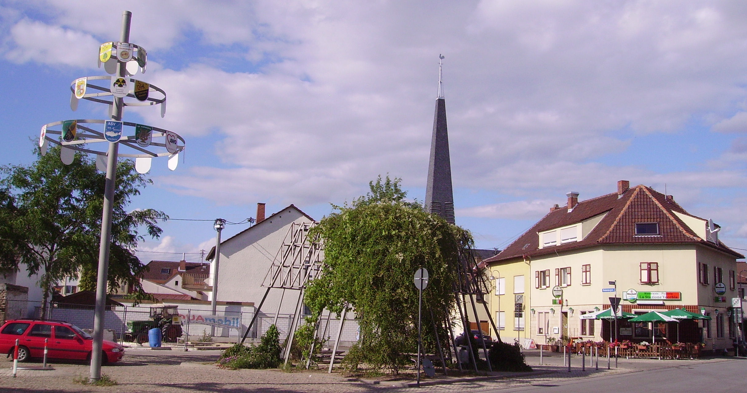 Ludwigshafen-Maudach, Germany